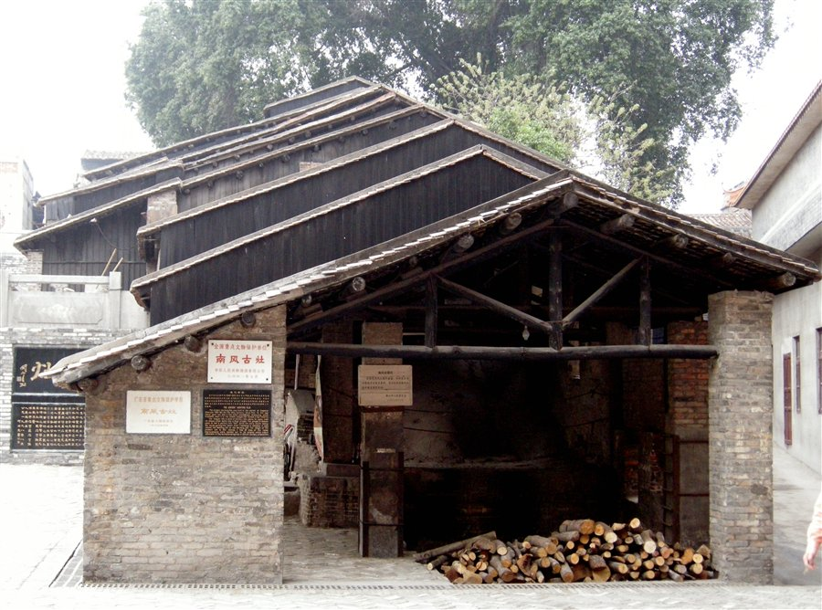 Ancient Nanfeng Kiln, Foshan, China